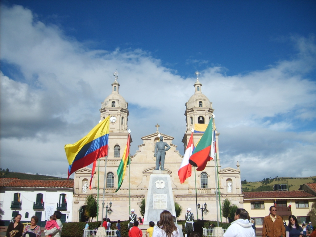 Central Park of Santa Rosa de Viterbo, Boyacá, Colombia. Rafael Reyes Park.